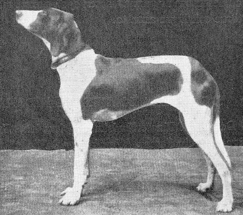 A Braque Dupuy (Dupuy Pointer) from 1932.